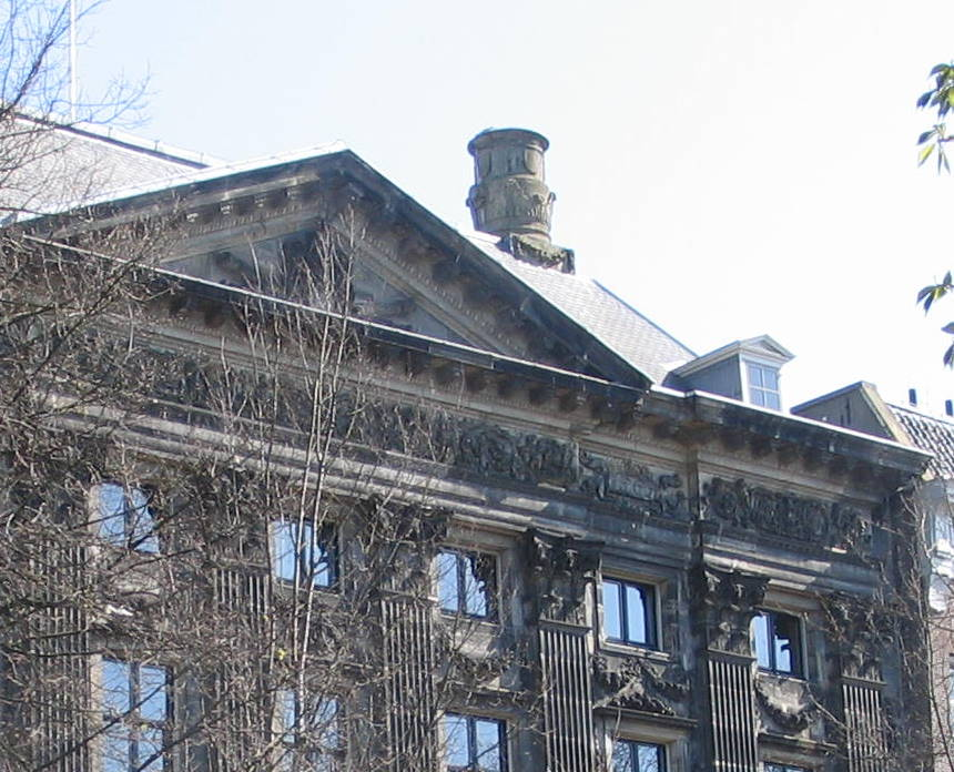 Detail Trippenhuis